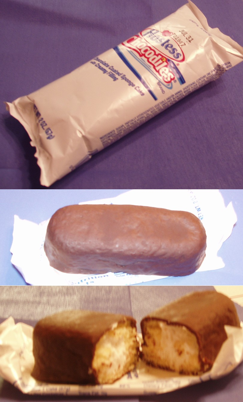 Chocodile in wrapper, Chocodile out of wrapper, dissected Chocodile